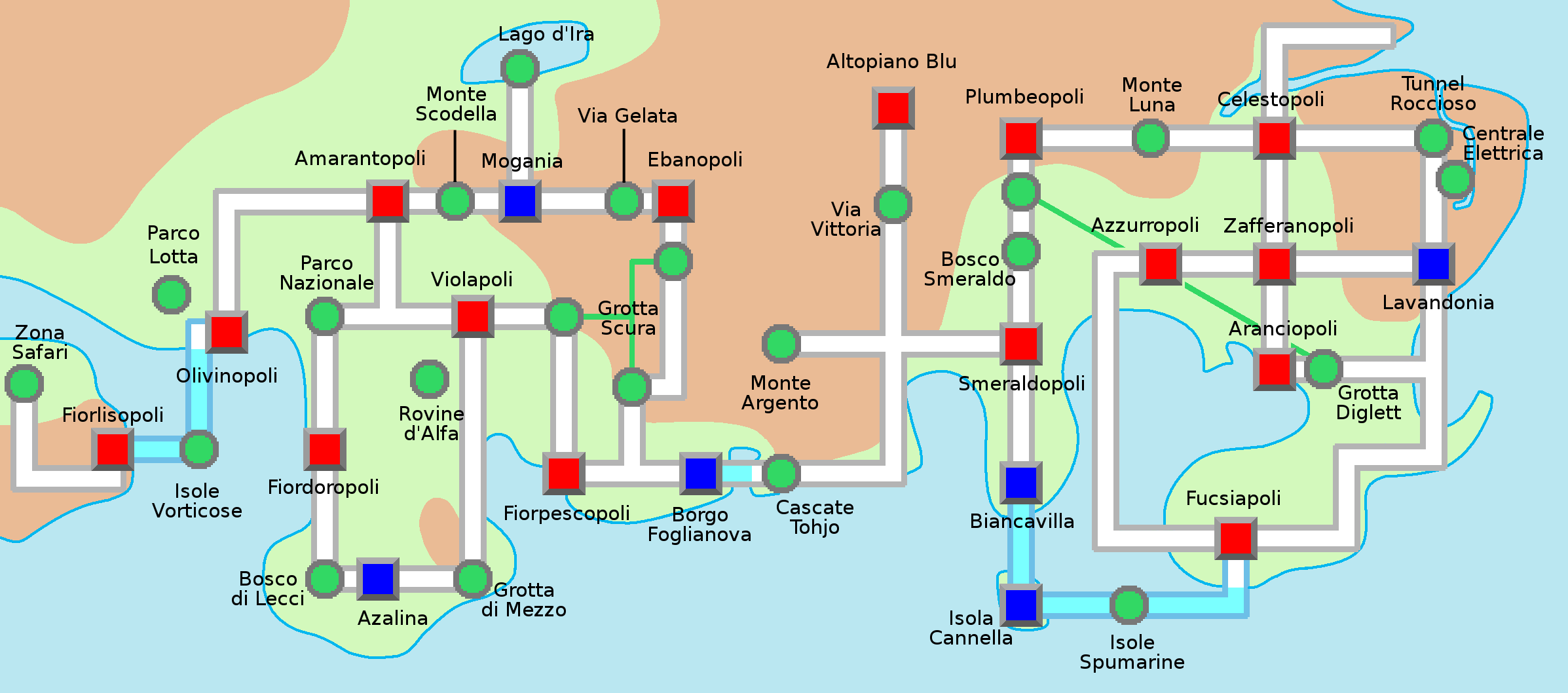 Map of Kanto and Johto, fictitious regions in Pokemon